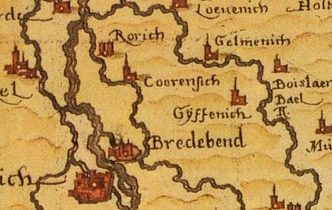 Detail from an Atlas (1557) of the german cartographer Christian Sgrothen (1525-1604). This part of the map shows Towns and villages around the german village Körrenzig at the river Rur (Roer)